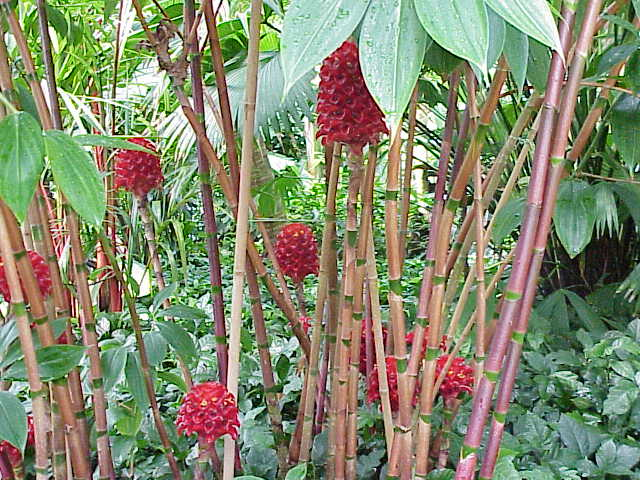 Species: Tapeinochilos ananassae Family: Zingiberaceae Image No. 4